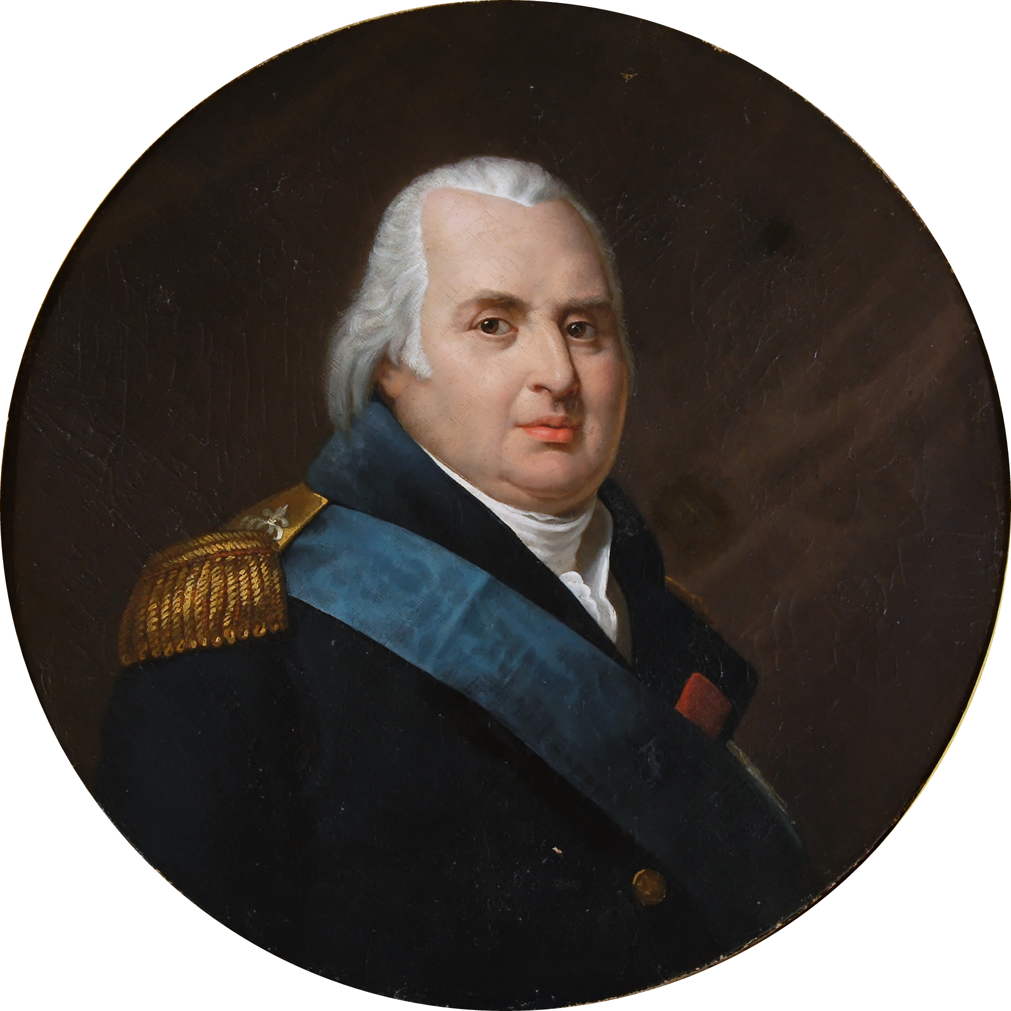 cropped version of this